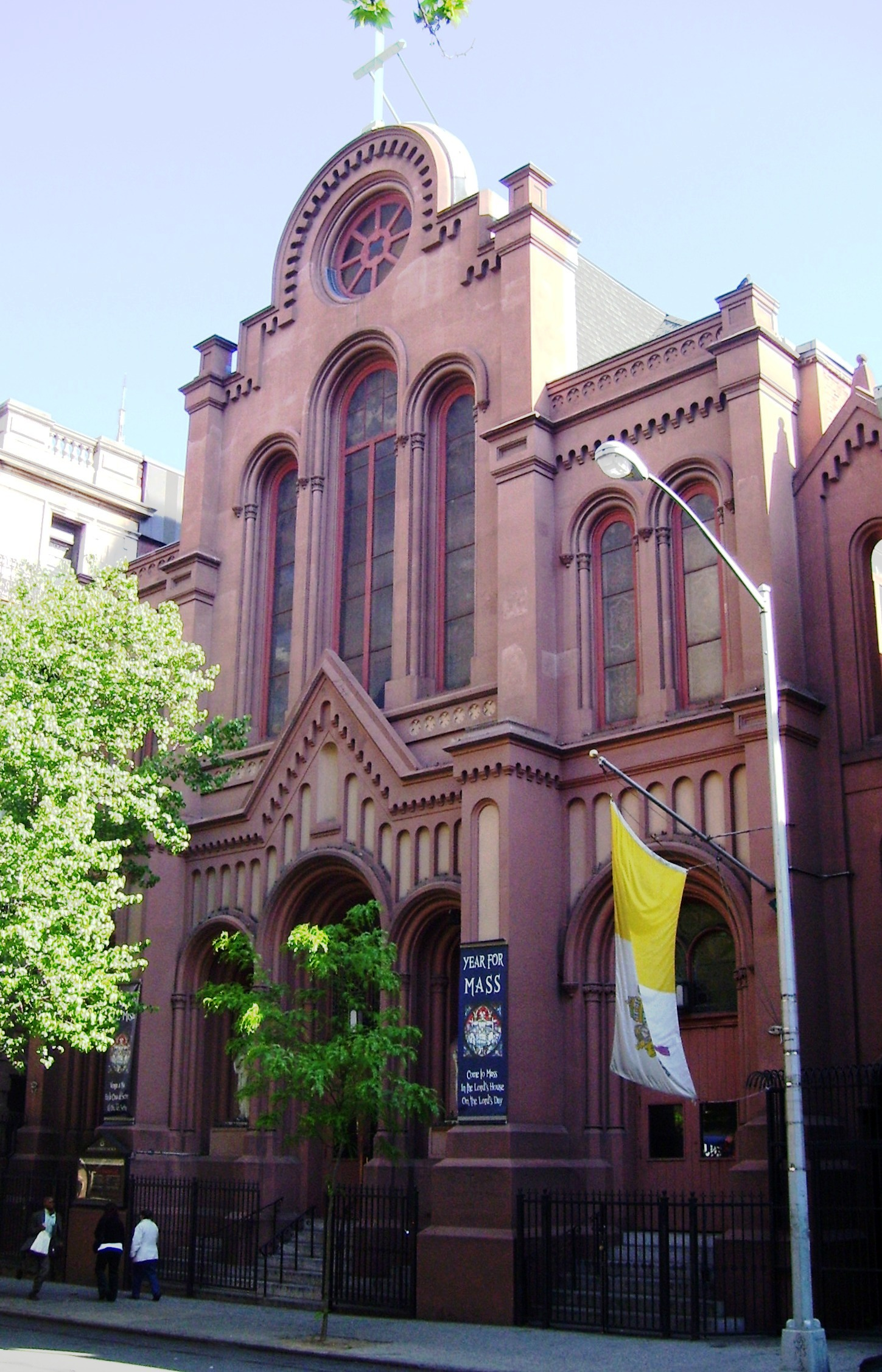 The 28th Street facade of the Church of Our Lady of the Scapular-St. Stephen at 149 East 28th Street between Third and Lexington Avenues in the Rose Hill neighborhood of Manhattan, New York City, built in 1854 and designed by James Renwick, Jr.